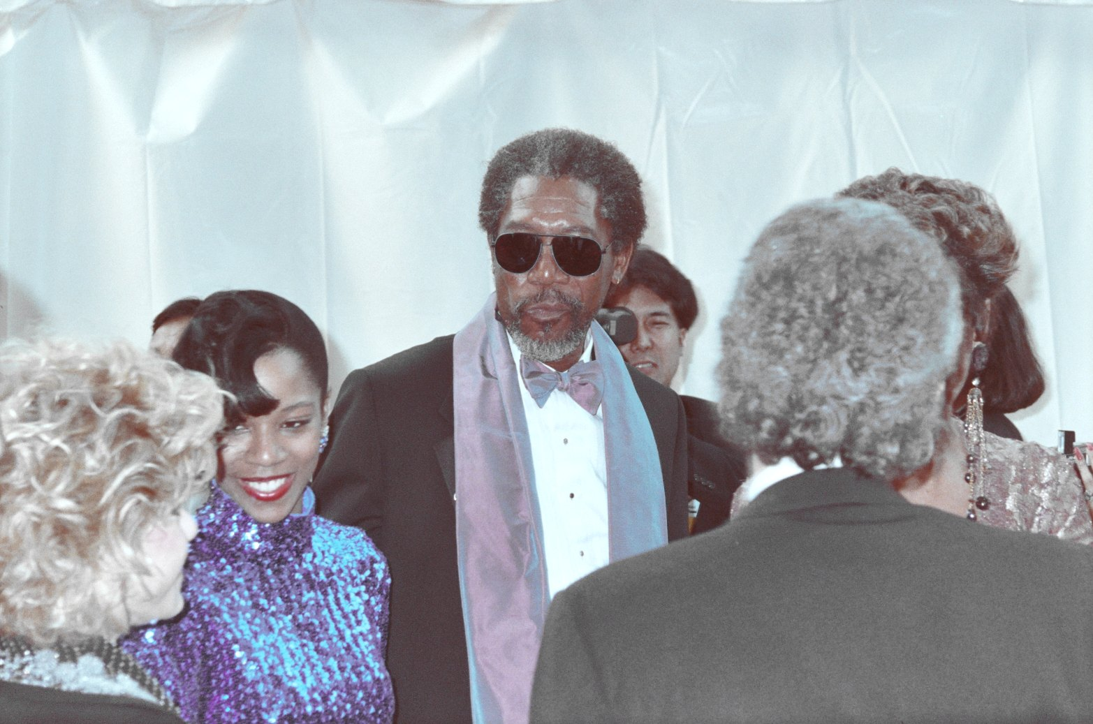 Morgan Freeman with his daughter, Morgana Freeman (L) and wife, Myrna Colley-Lee (R), at the 1990 Academy Awards.